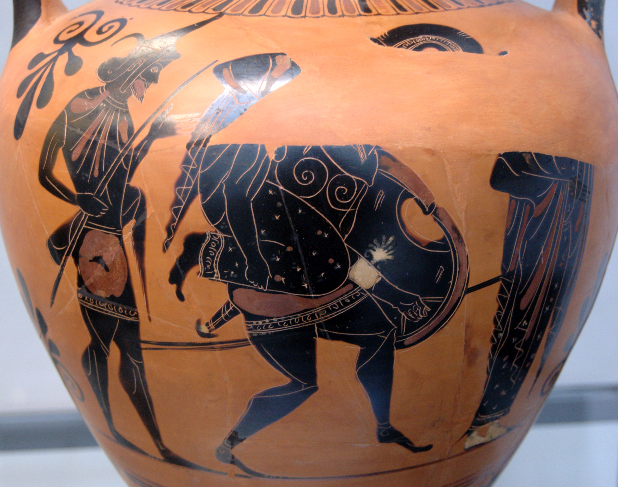 Flight from Troy: Aeneas carrying Anchises. Side A of an Attic black-figure neck-amphora, ca. 510 BC.